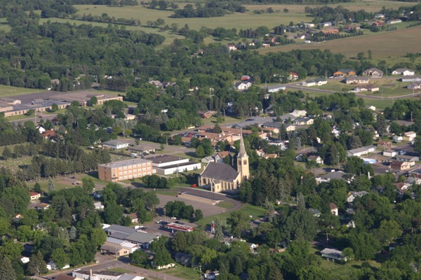 its pierz